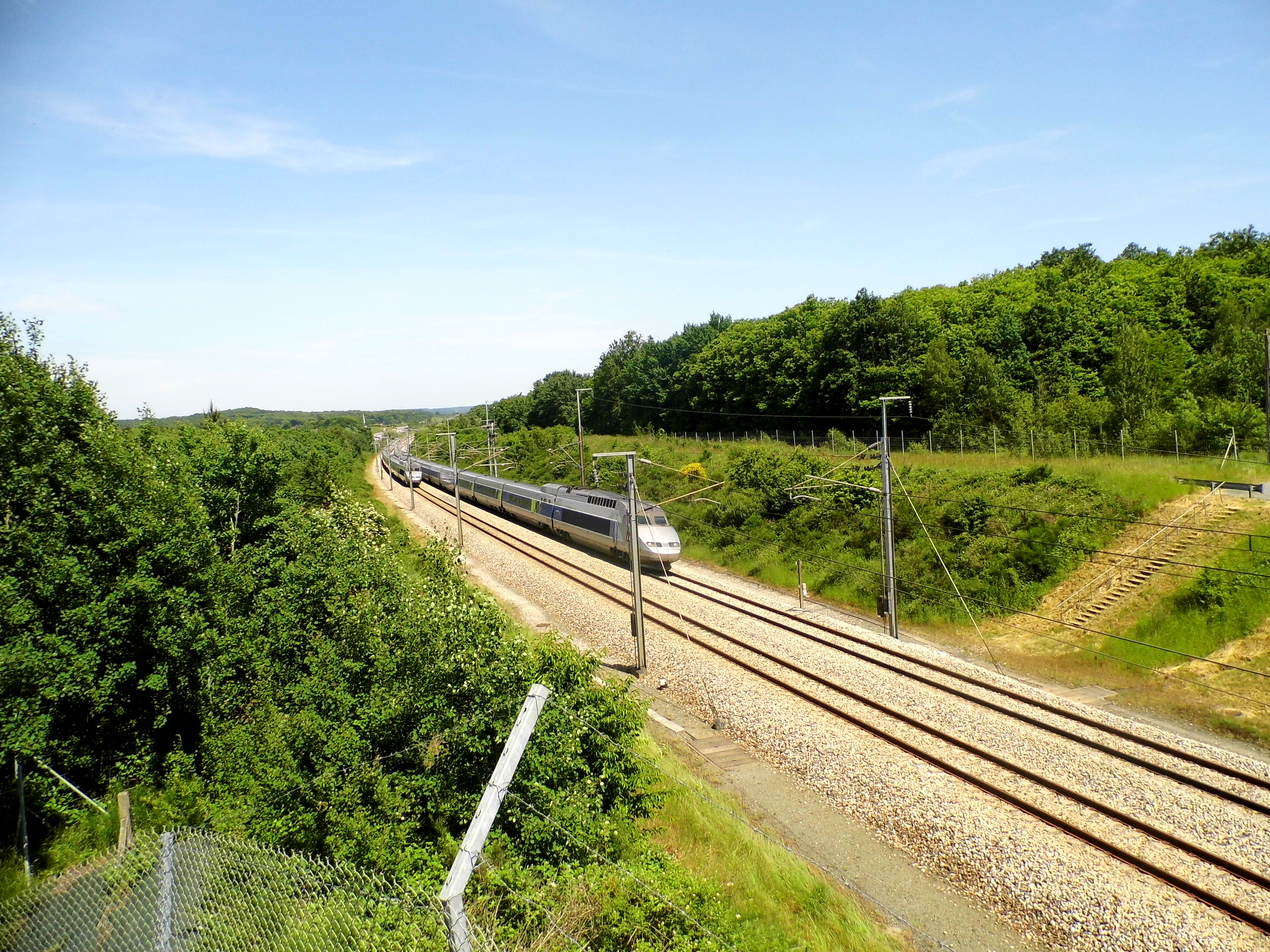 TGV ATLANTIQUE à Angervilliers 91